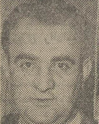 Ettela'at newspaper, No.14740, dated Tir 2, 1354 (23 June 1975), page 4.